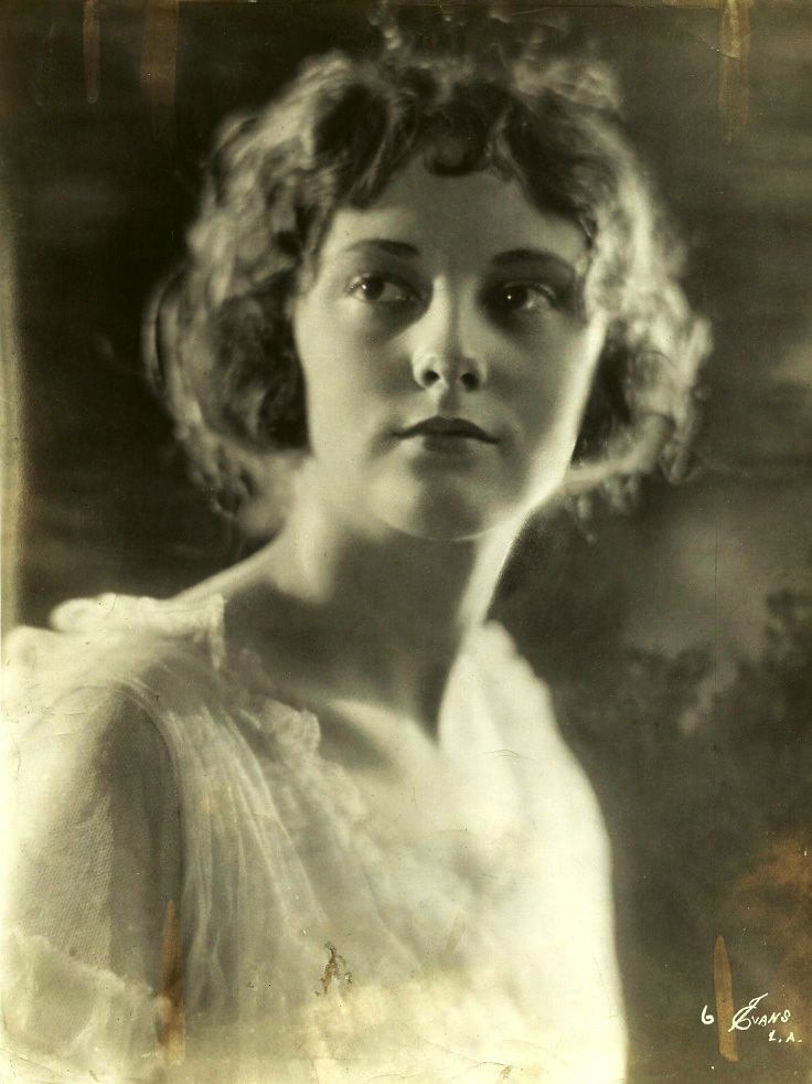 Portrait of American actress Barbara Bedford (1903–1981) by Evans L.A.